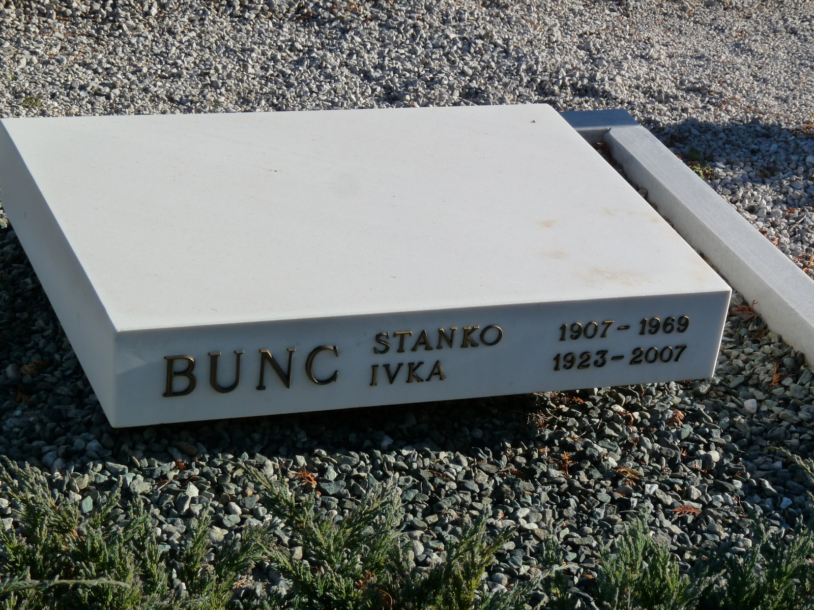 Stanko Bunc, nagrobnik v Kranju